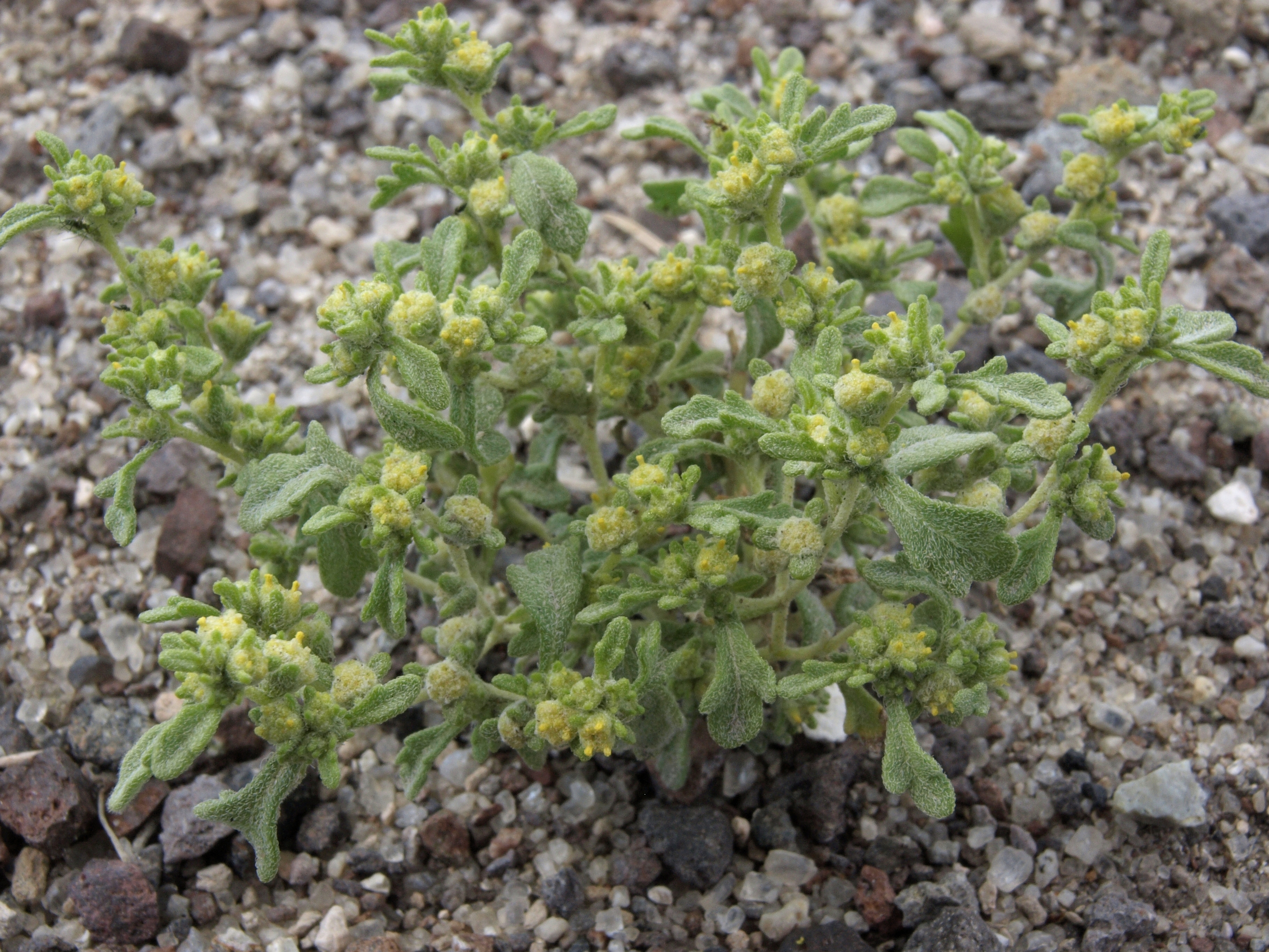 Nevada wormwood, Euphrosyne nevadensis (formerly Iva nevadensis), White Mountains, elevation 1830 m (6000 ft)